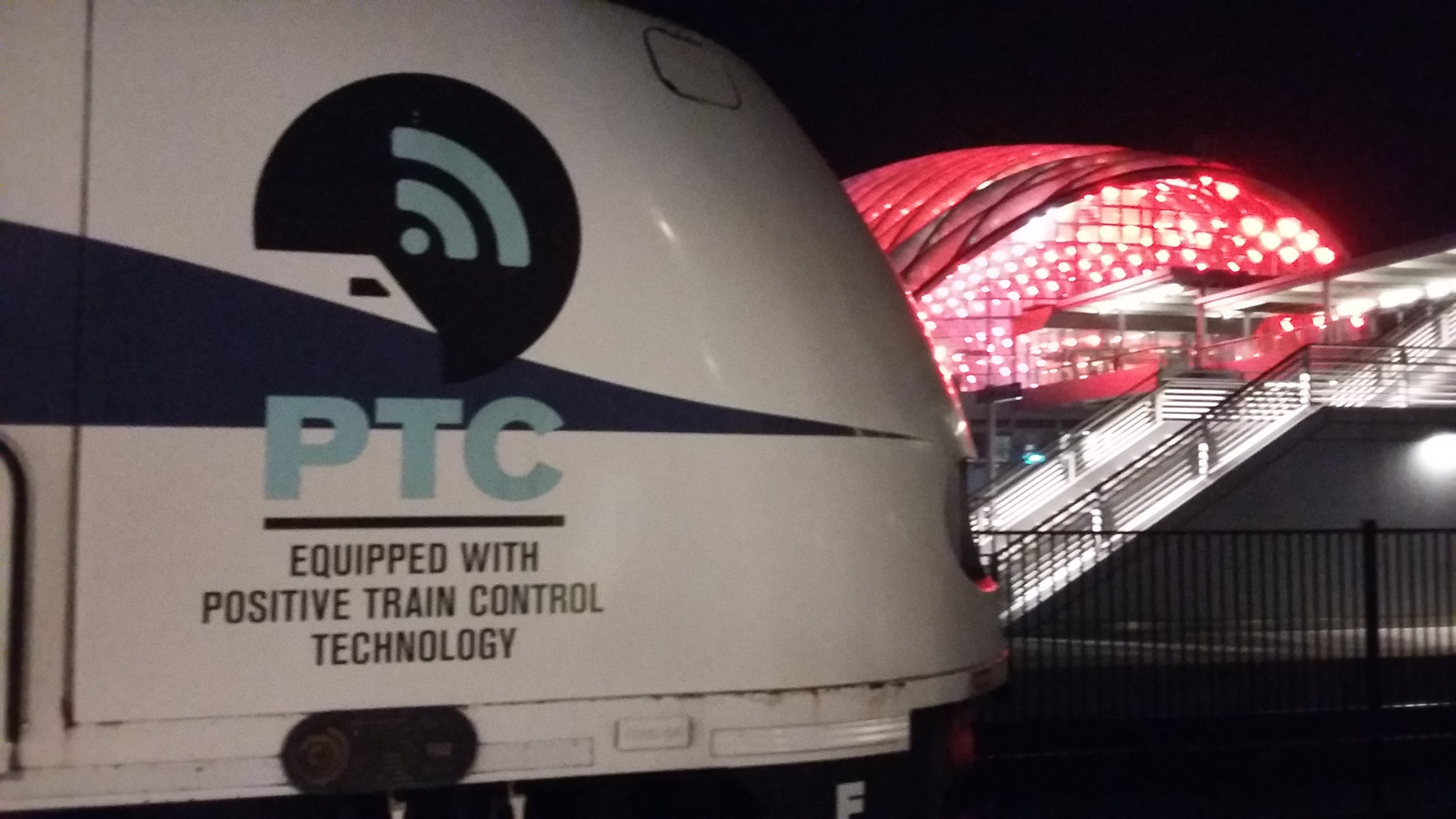 Positive Train Control, Metrolink 891, ARTIC, night